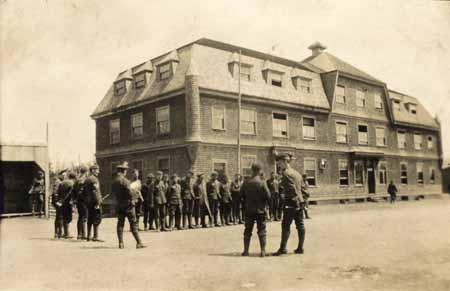 ca. 1918